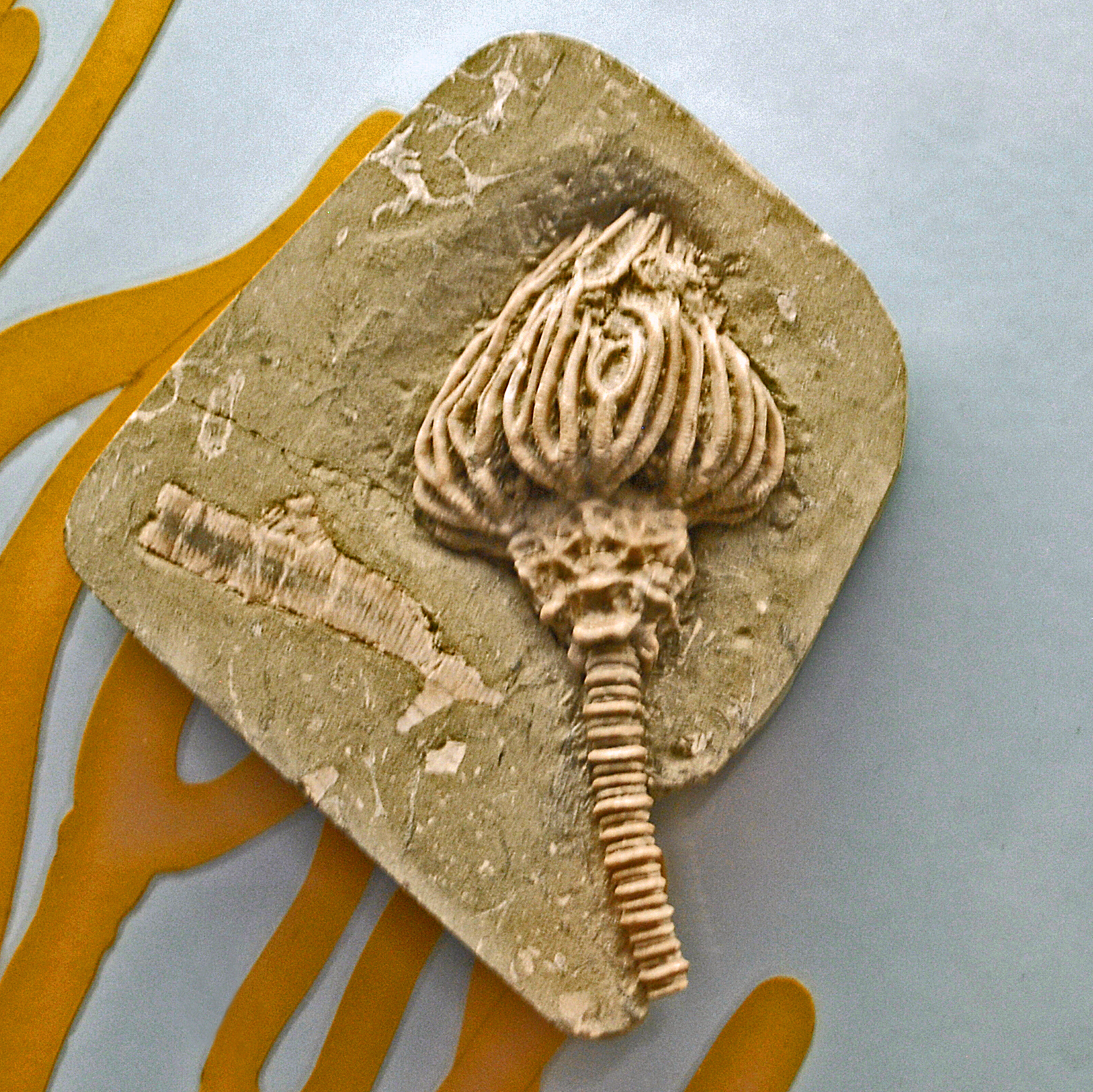 Fossil of Actinocrinites from Carboniferous of Indiana (USA), on display at the Museo Civico di Storia Naturale di Milano